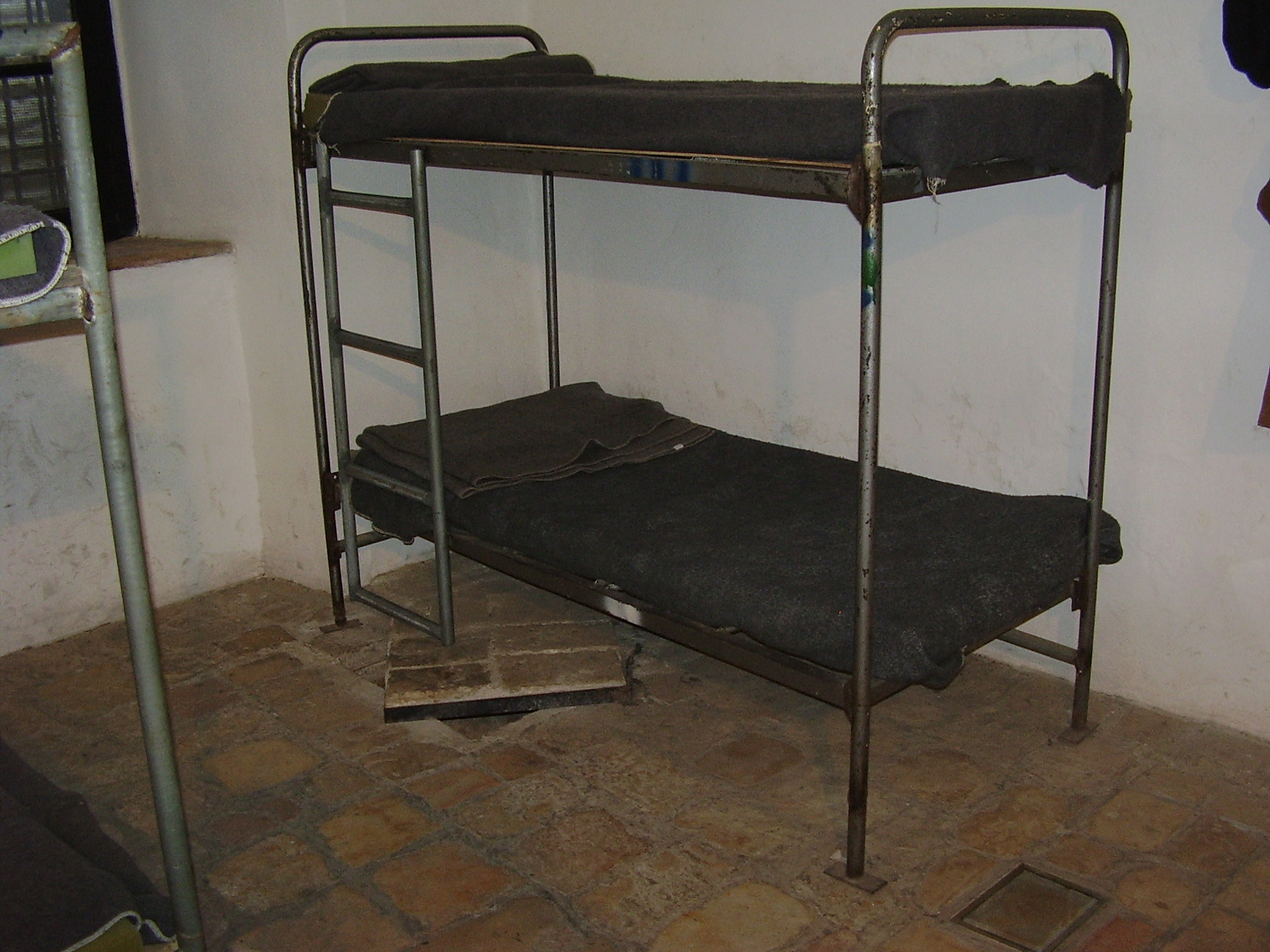 museum of the underground prisoners in jerusalem - open pit escape